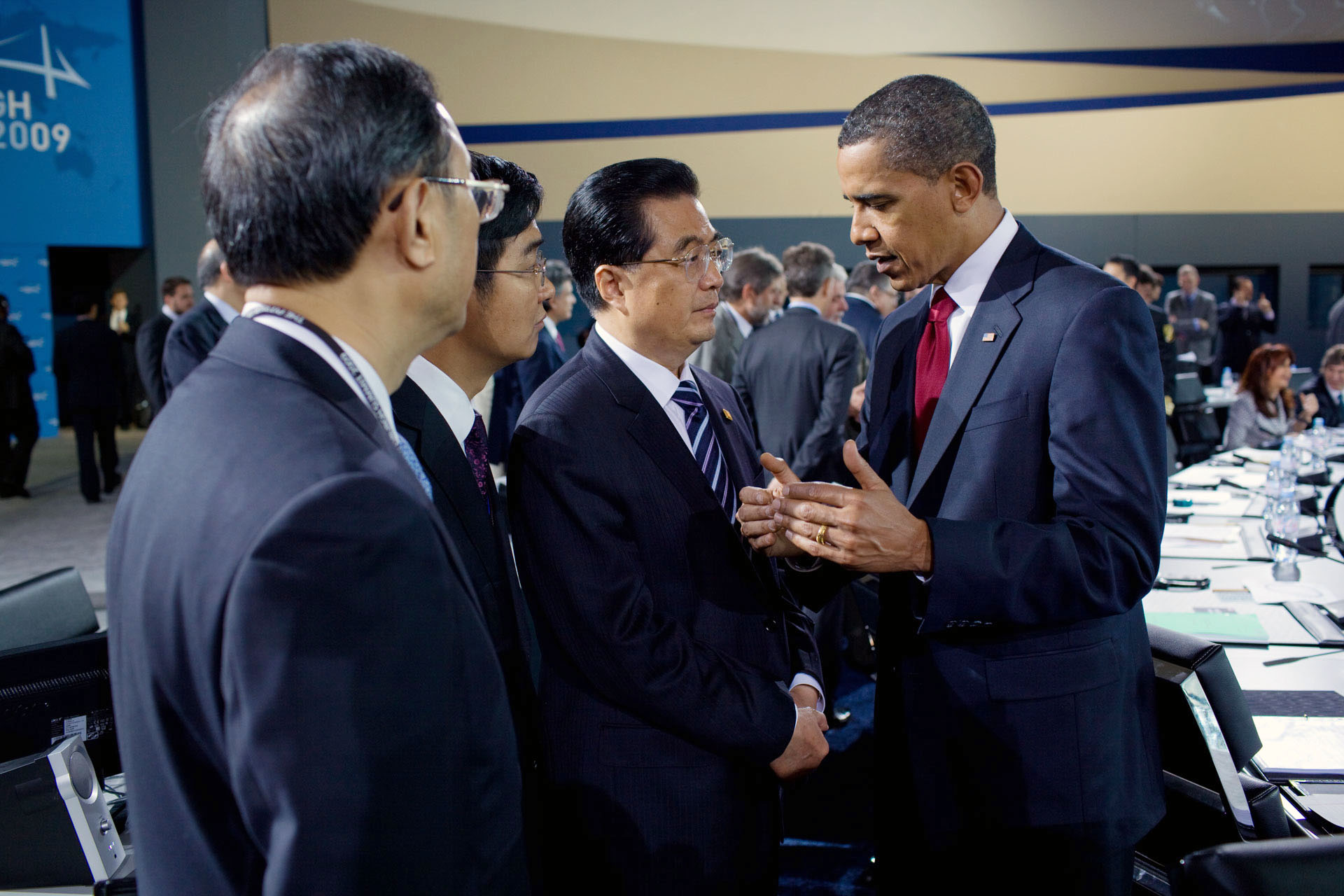 President Barack Obama talks with Chinese President Hu Jintao during the morning plenary session of the G-20 Pittsburgh Summit at the David L. Lawrence Convention Center in Pittsburgh.